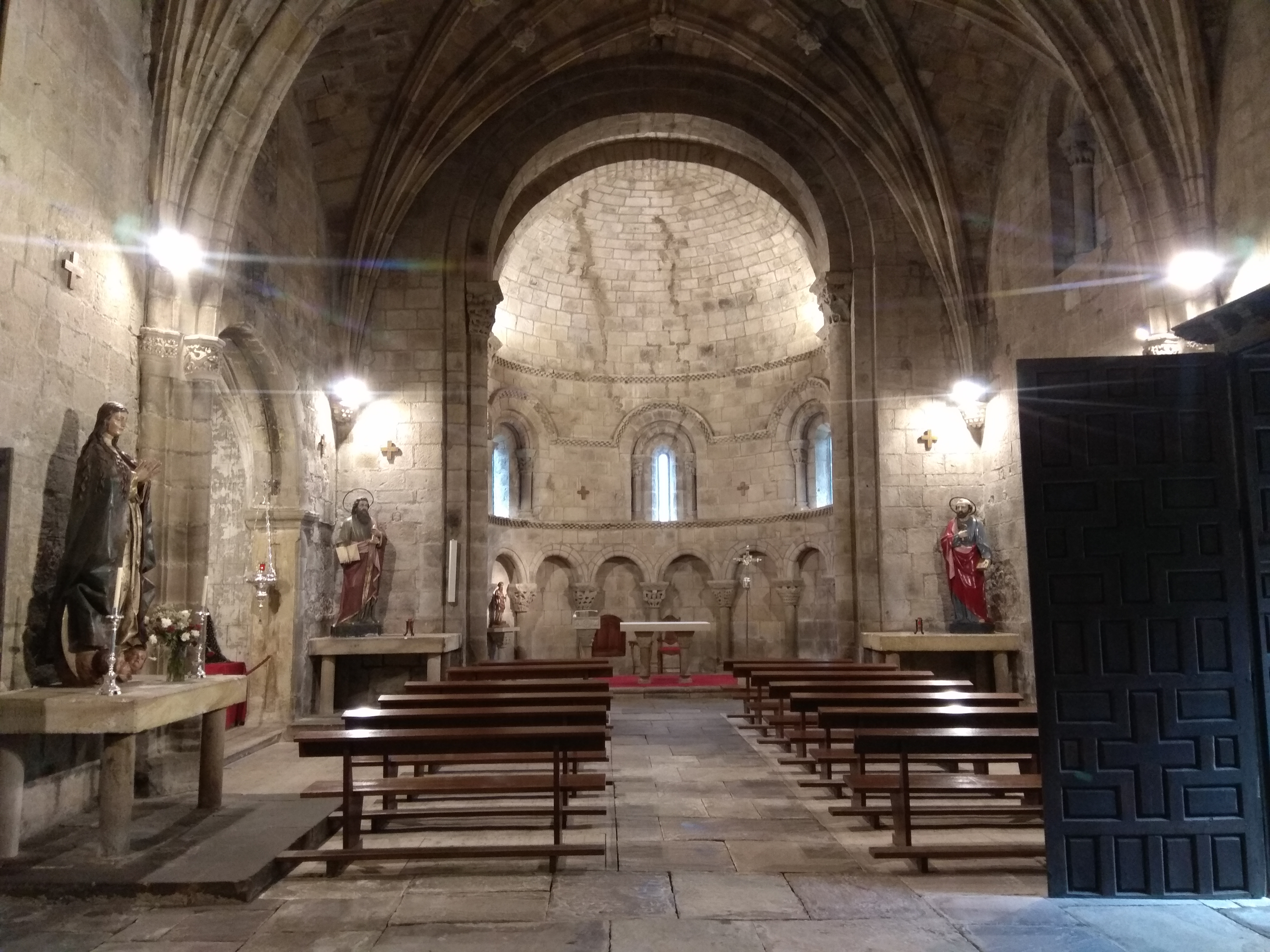 The purest architecture of this church is found in the triumphal arch and in the apse. The vaults of the nave have been very modified, being reconstructed very later to the Romanesque building.